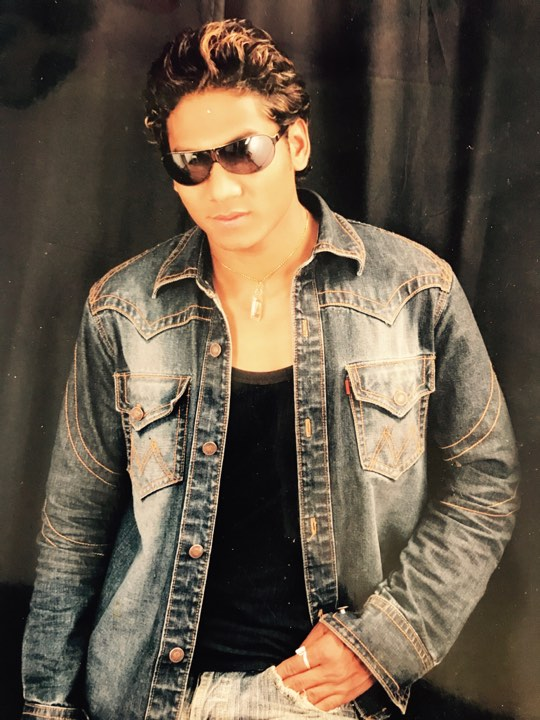 this photo credit bibek karki